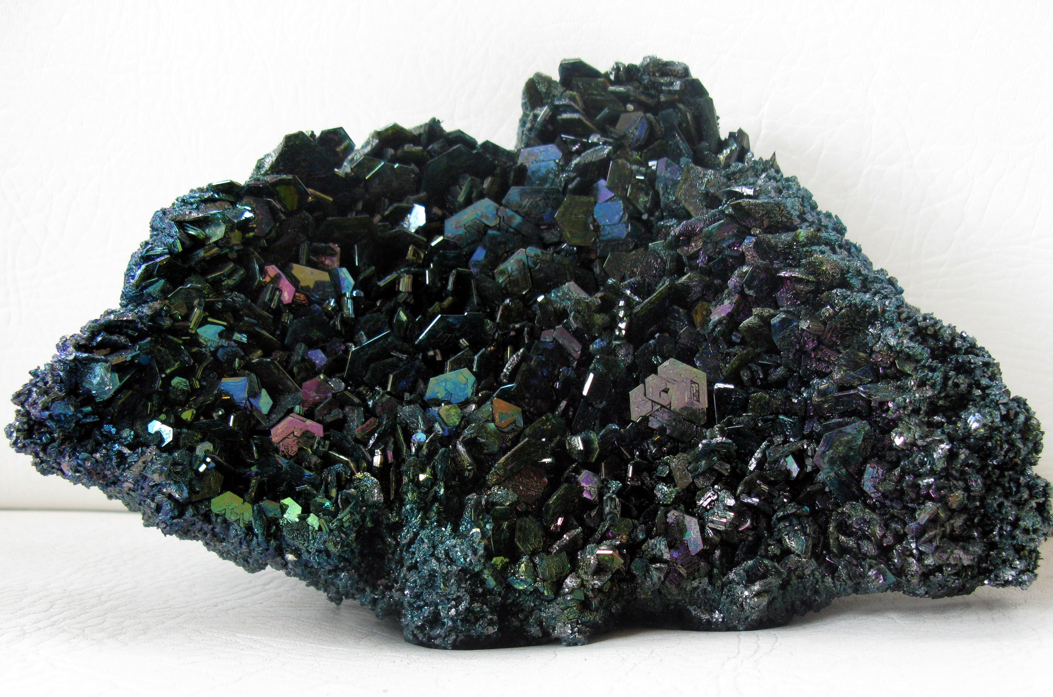 Carborundum (silicon carbide) is produced artifically in large quantities as an abrasive. Most is crushed and used in griding grits and abrasive papers. This specimen shows coarsely crystallised hexagonal plates of silicon carbide, with typical rainbow irridescent surface colours. It does occur in naturally as well, as the mineral moissanite, but it is very rare, and crystals are almost always tiny or microscopic. Collection ID: GLAHM 100688 This photo was taken as part of Britain Loves Wikipedia in February 2010 by John Faithfull.